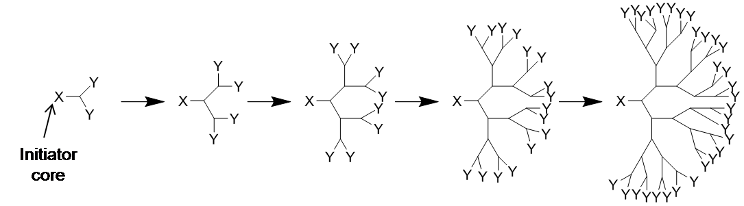 Cartoon of the divergent method of dendrimer synthesis.